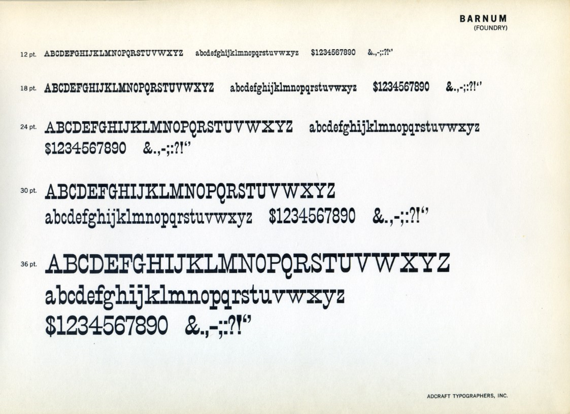 from